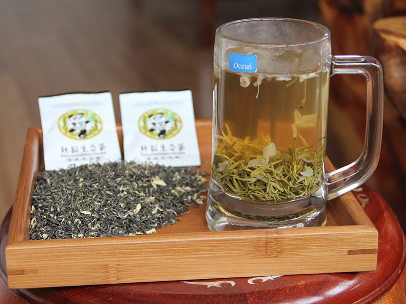 Panda Tea - Scented Tea - Photo by Canon Camera